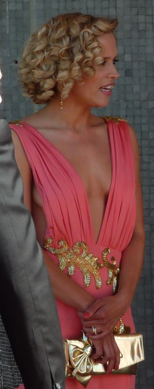 British actress Beth Cordingly at the 2009 BAFTA award ceremony in London.